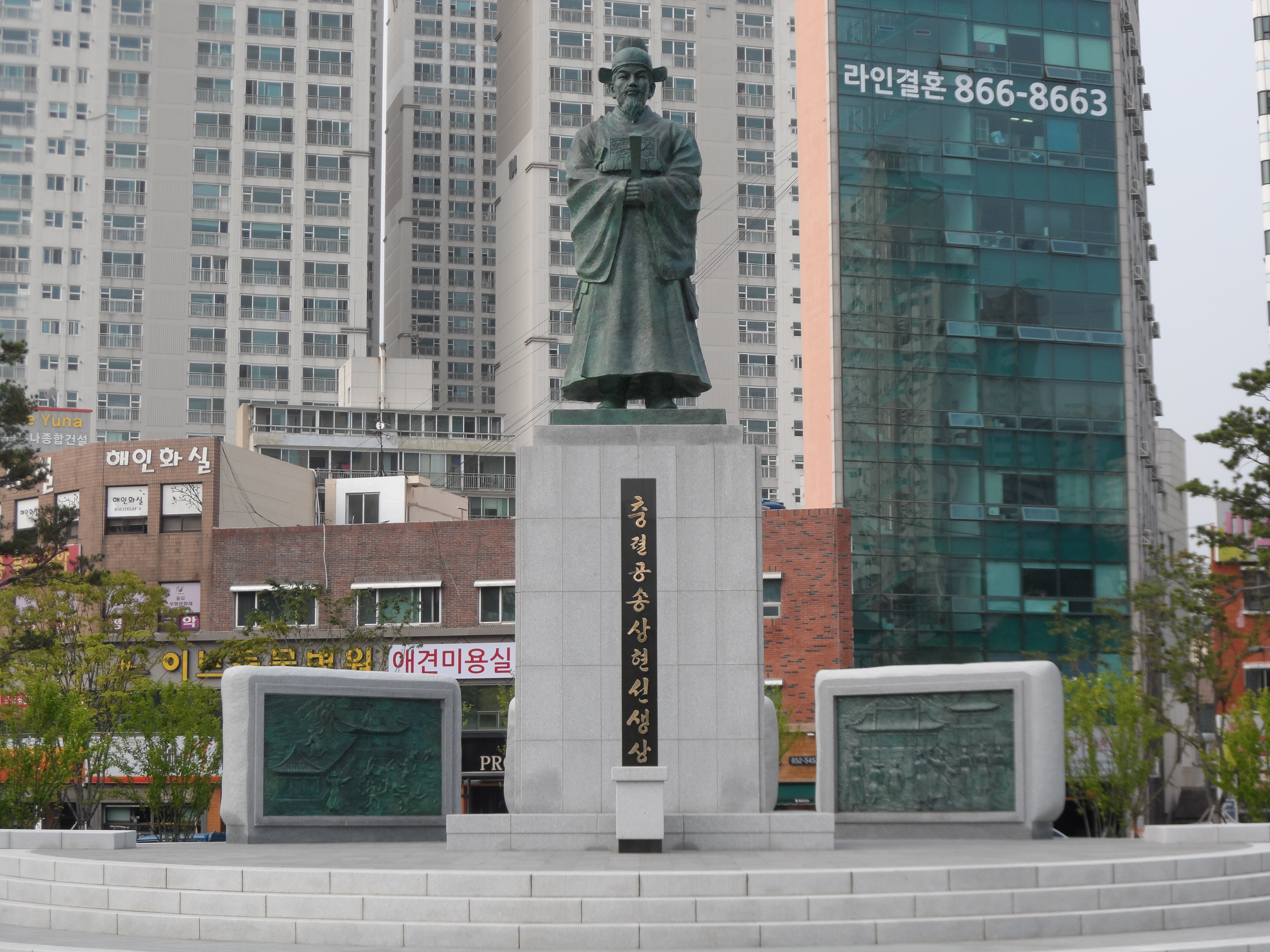 Statue of Chungnyeolgong Song Sang-hyeon